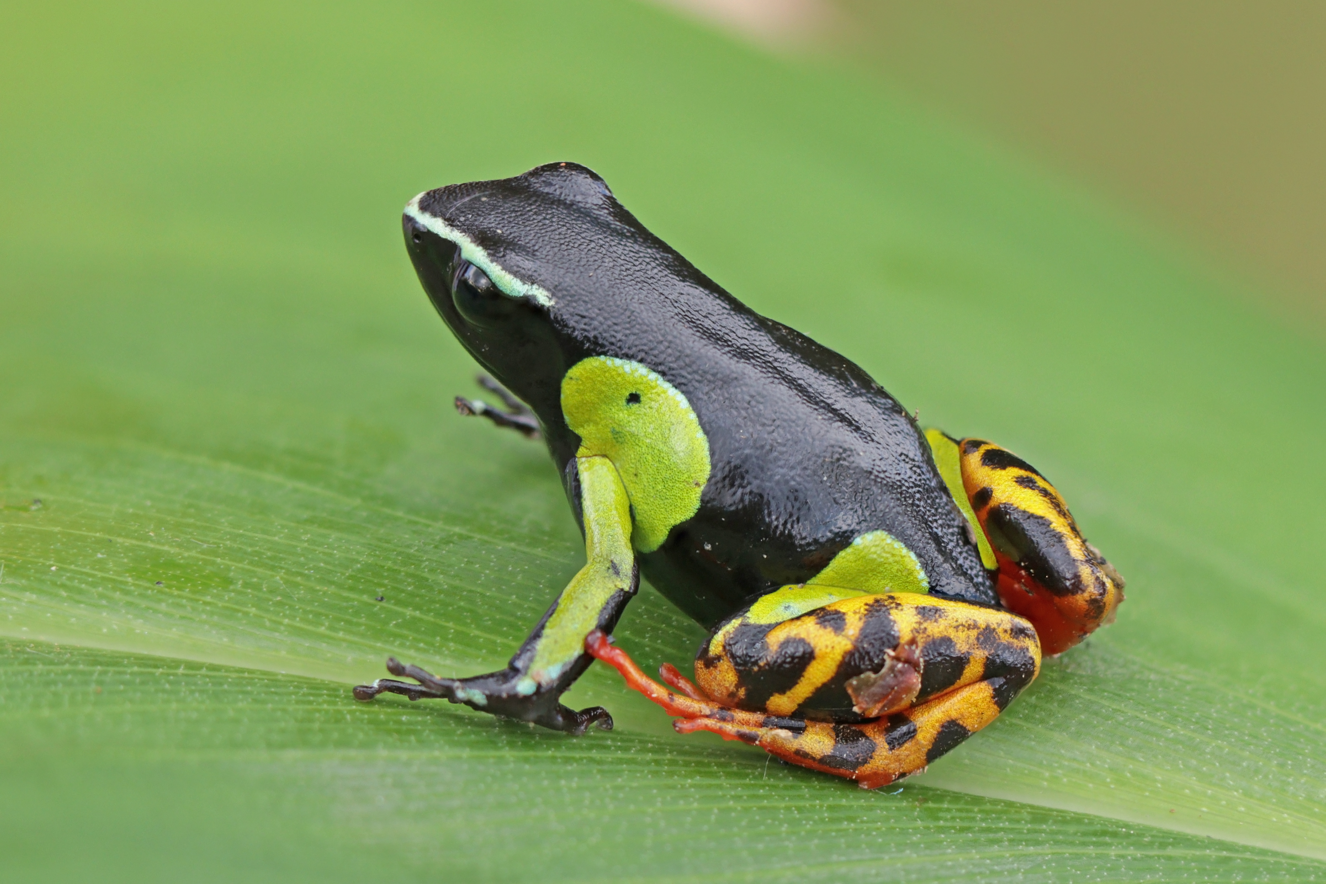 Variegated golden frog (Mantella baroni), Ranomafana National Park, Madagascar